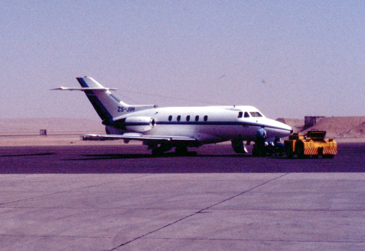 Hawker Siddeley 125 Mercurius ZS-JIH at AFB Rooikop